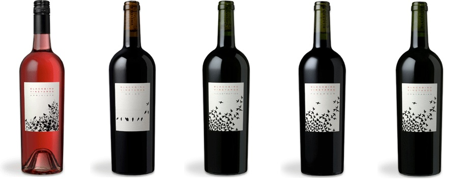 Five bottles from Blackbird Vineyard